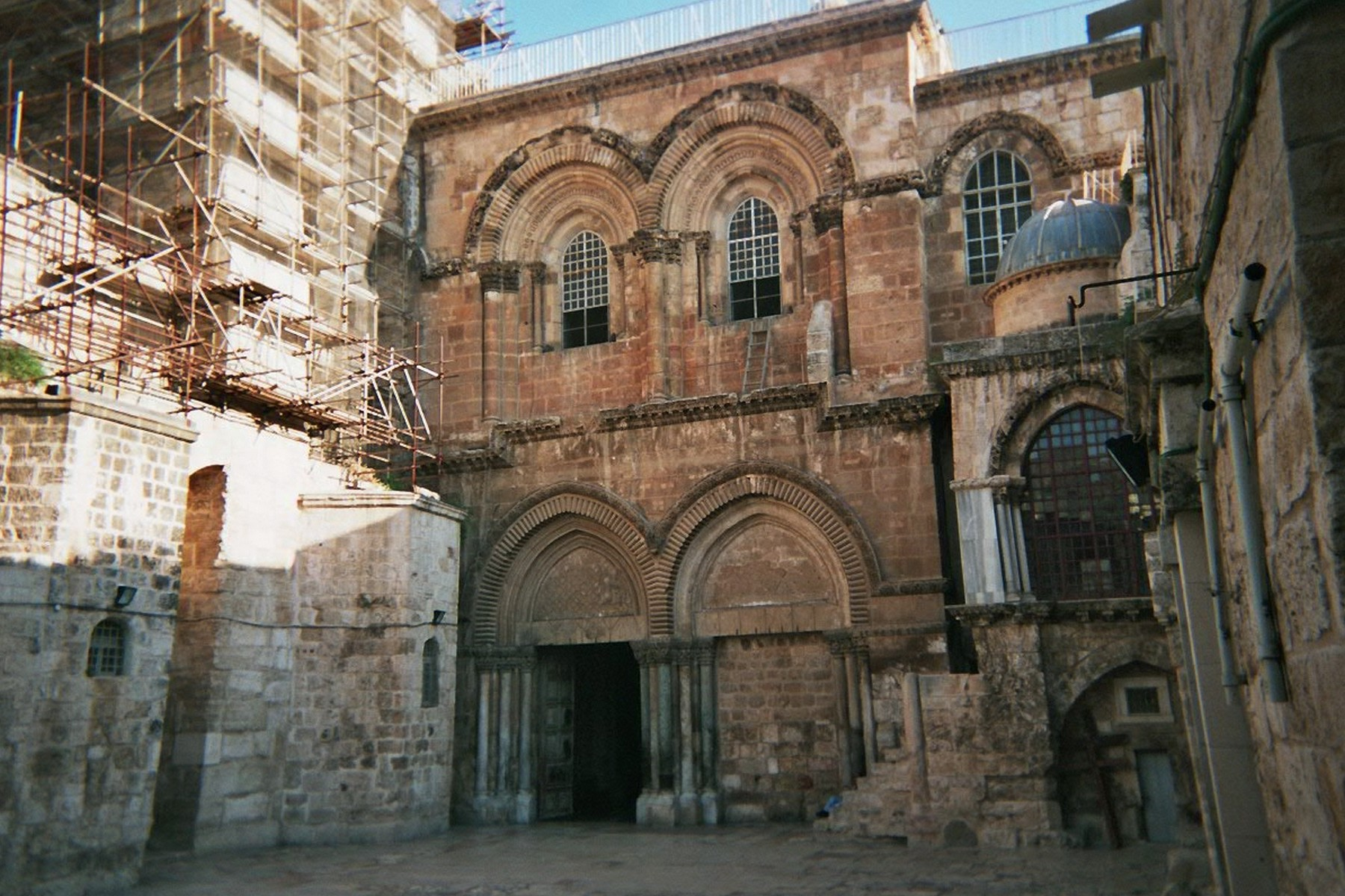 Old Jerusalem - Church of the Holy Sepulchre still in the shadow on early morning